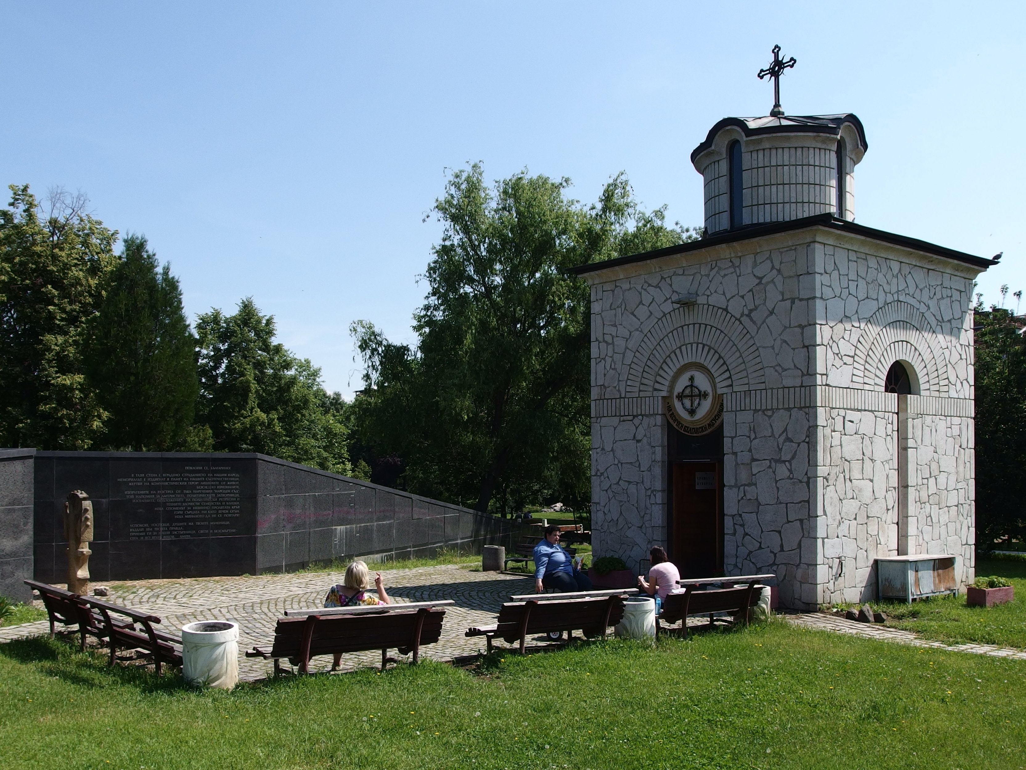 2014-06-15 in Sofia.